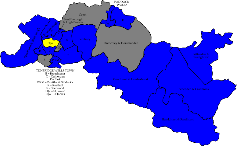 A map of the results of the 2007 Tunbridge Wells Council election. Colour legend by wards won: Conservative party Liberal Democrats Wards in grey were not contested in 2007.